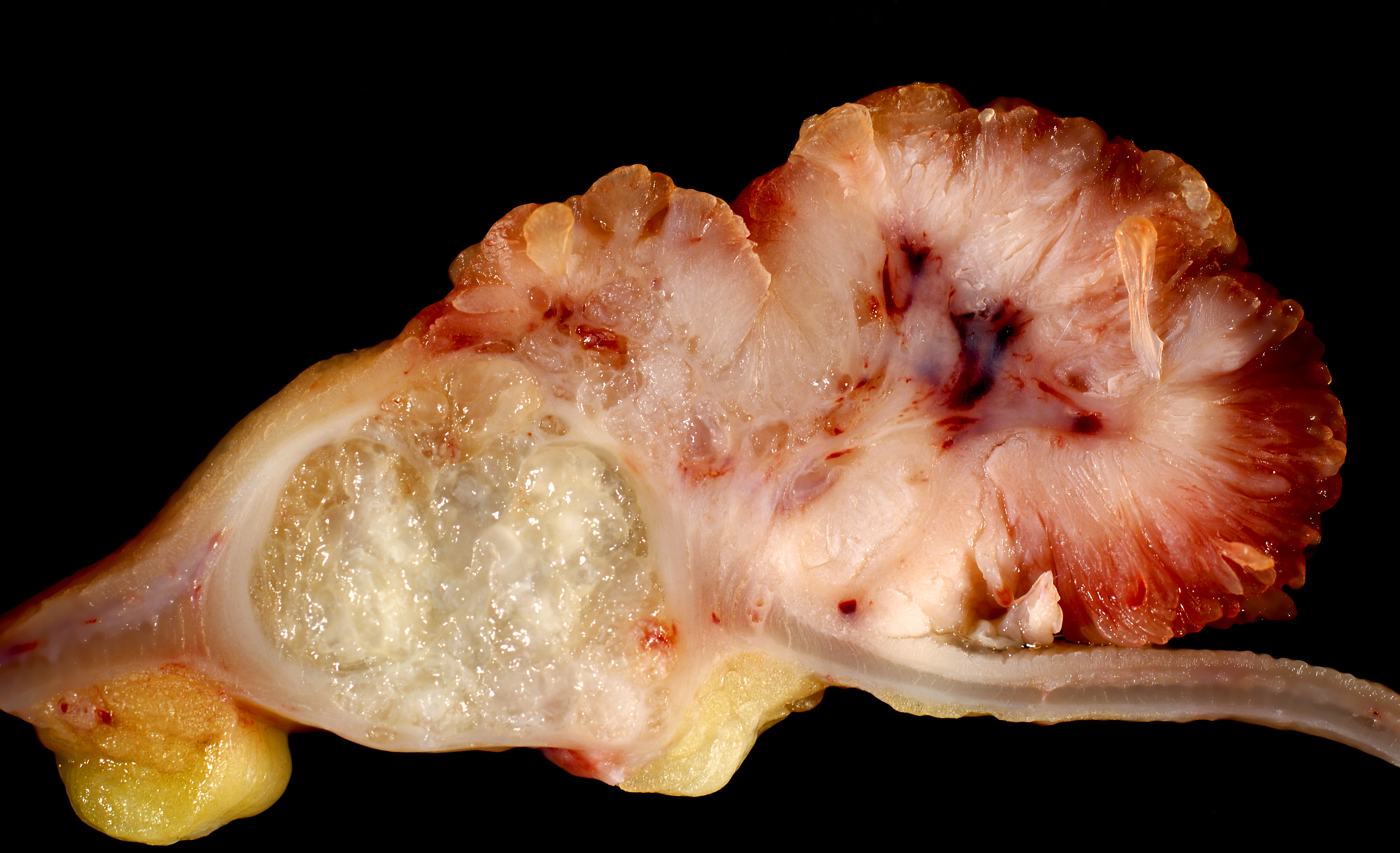 Adenocarcinoma of Ascending Colon Arising in Villous Adenoma This ascending colon tumor shows two distinct components: 1) a non-invasive villous adenoma on the right of the image, giving rise to 2) an invasive mucinous carcinoma on the left. The latter tumor has interrupted the ribbon-like contour of the muscularis propria. Despite the transmural invasion, all 19 lymph nodes were negative for tumor.